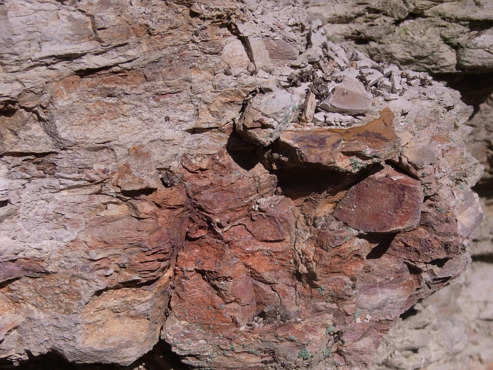 Exposed sedimentary rock Chatswood, Sydney Basin. Near the Pacific Highway, altitude 95 metres. Most likely Ashfield Shale.